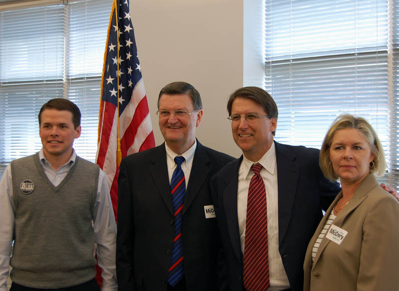 Charlotte Mayor and former candidate for Governor Pat McCrory (center, right) and NC Representative Justin Burr (far left) campaigning in May, 2008. Visit